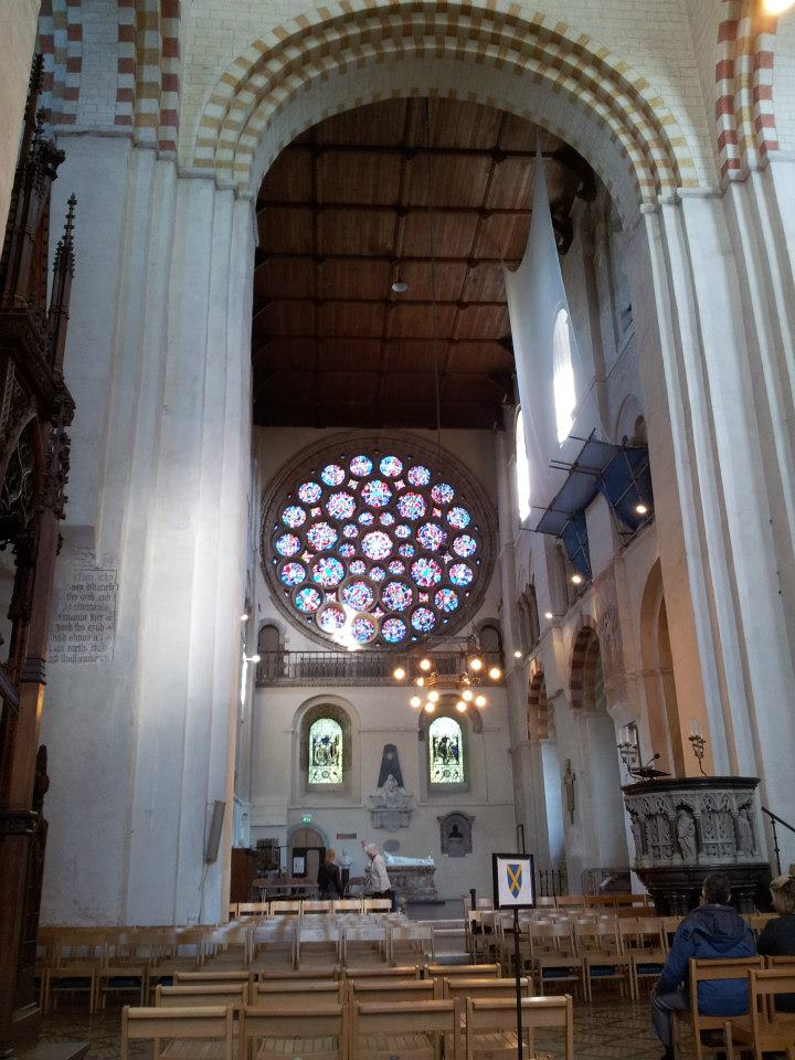 Abbey Church of St Alban